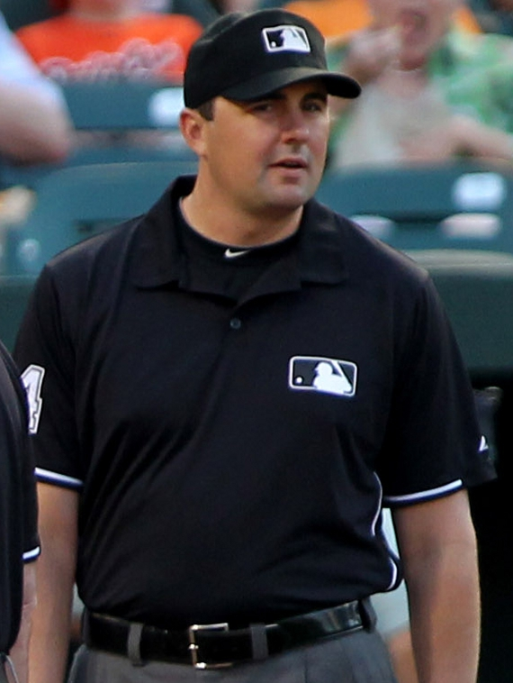 Crop of original image in order to show only umpire Lance Barrett.